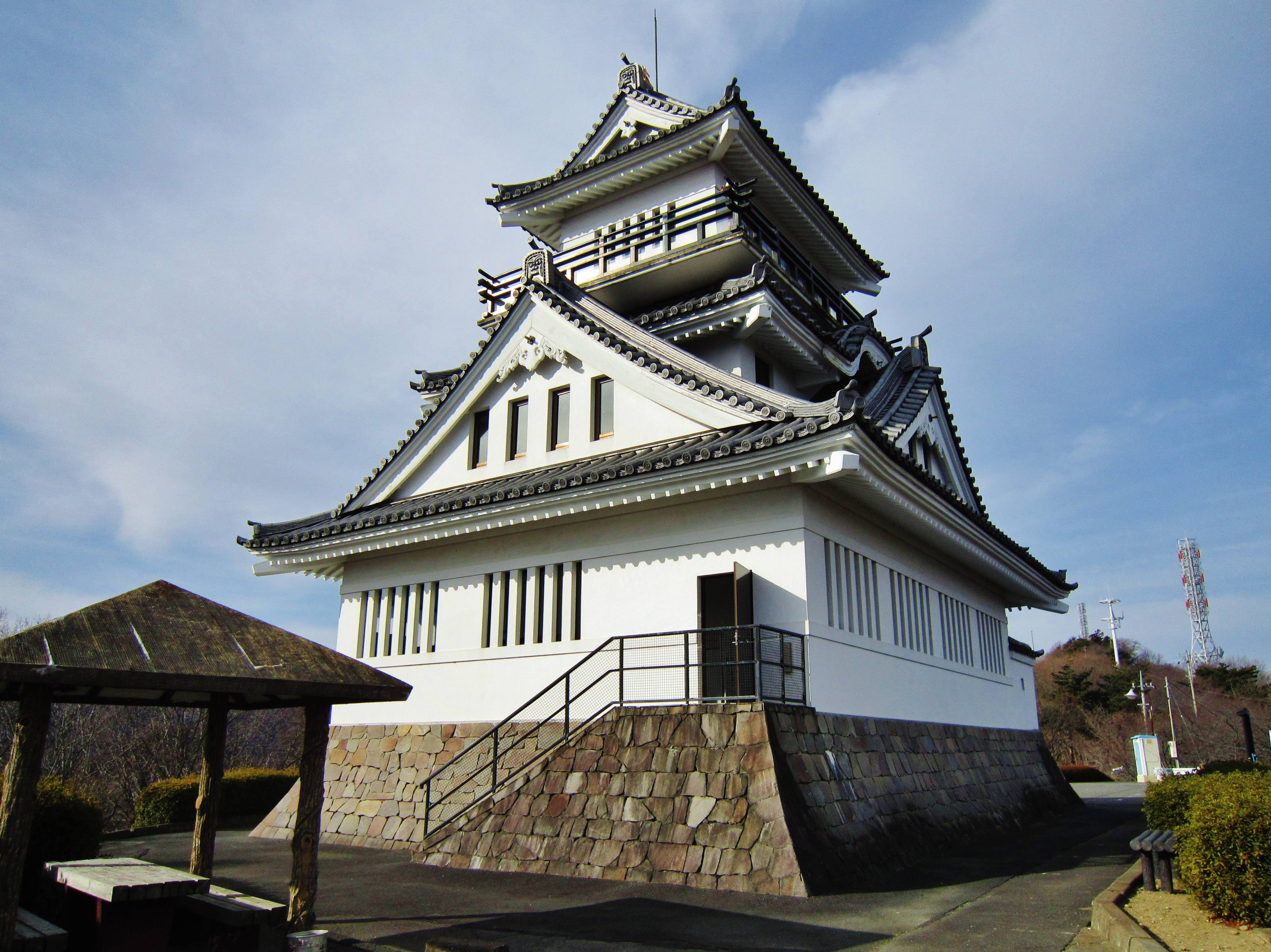 Mount Ushibuse observation deck (Ichigōyama Castle ruins).